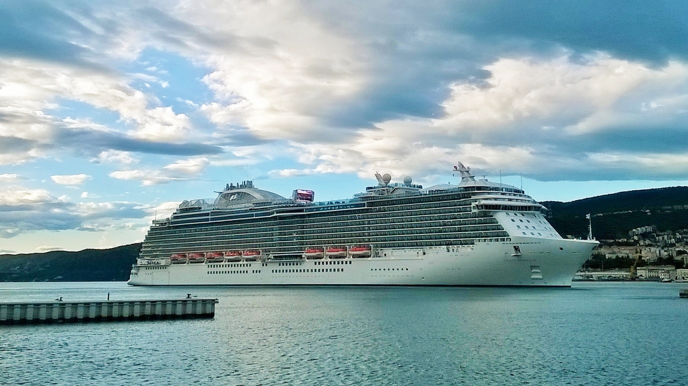 Regal Princess' maiden voyage (16/05/2014) from Trieste to Venice via Kotor